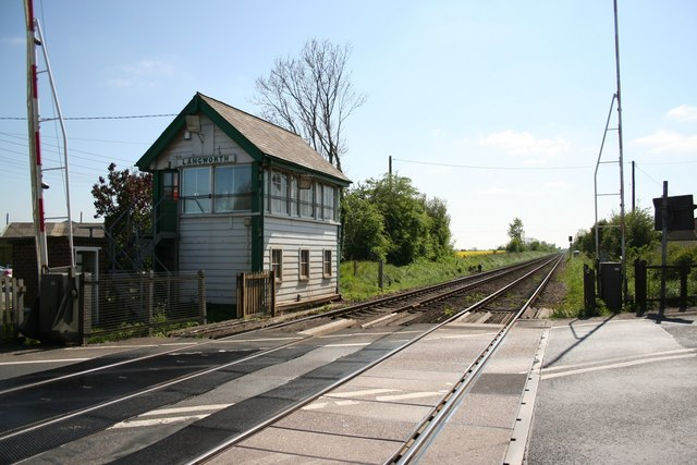 Langworth level crossing Looking south at Langworth level crossing